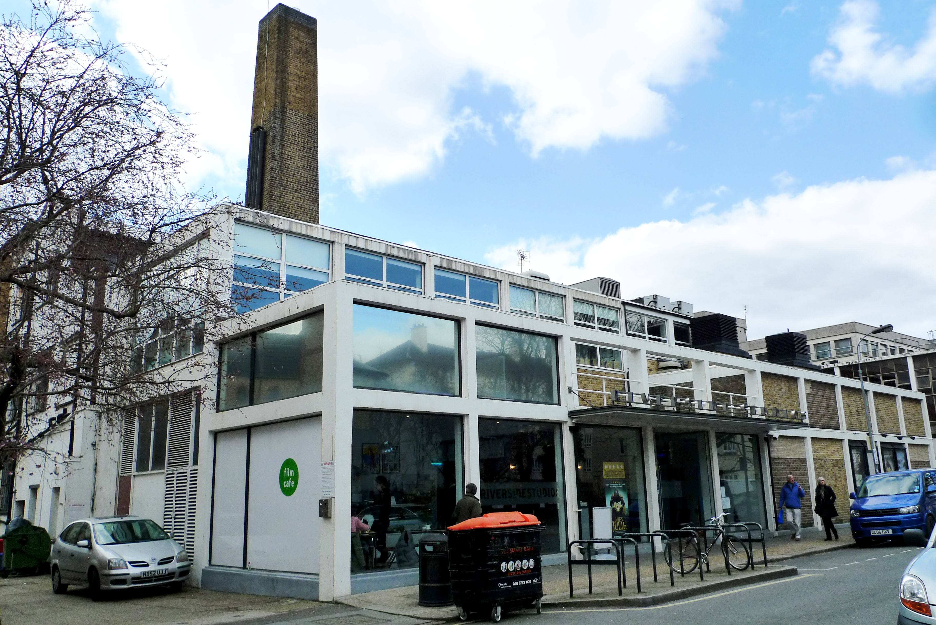 An arts centre with a cinema, theatre, gallery and cafe amongst other things. Address: Crisp Road. Owner: ( website ). Links: Randomness Guide to London Wikipedia